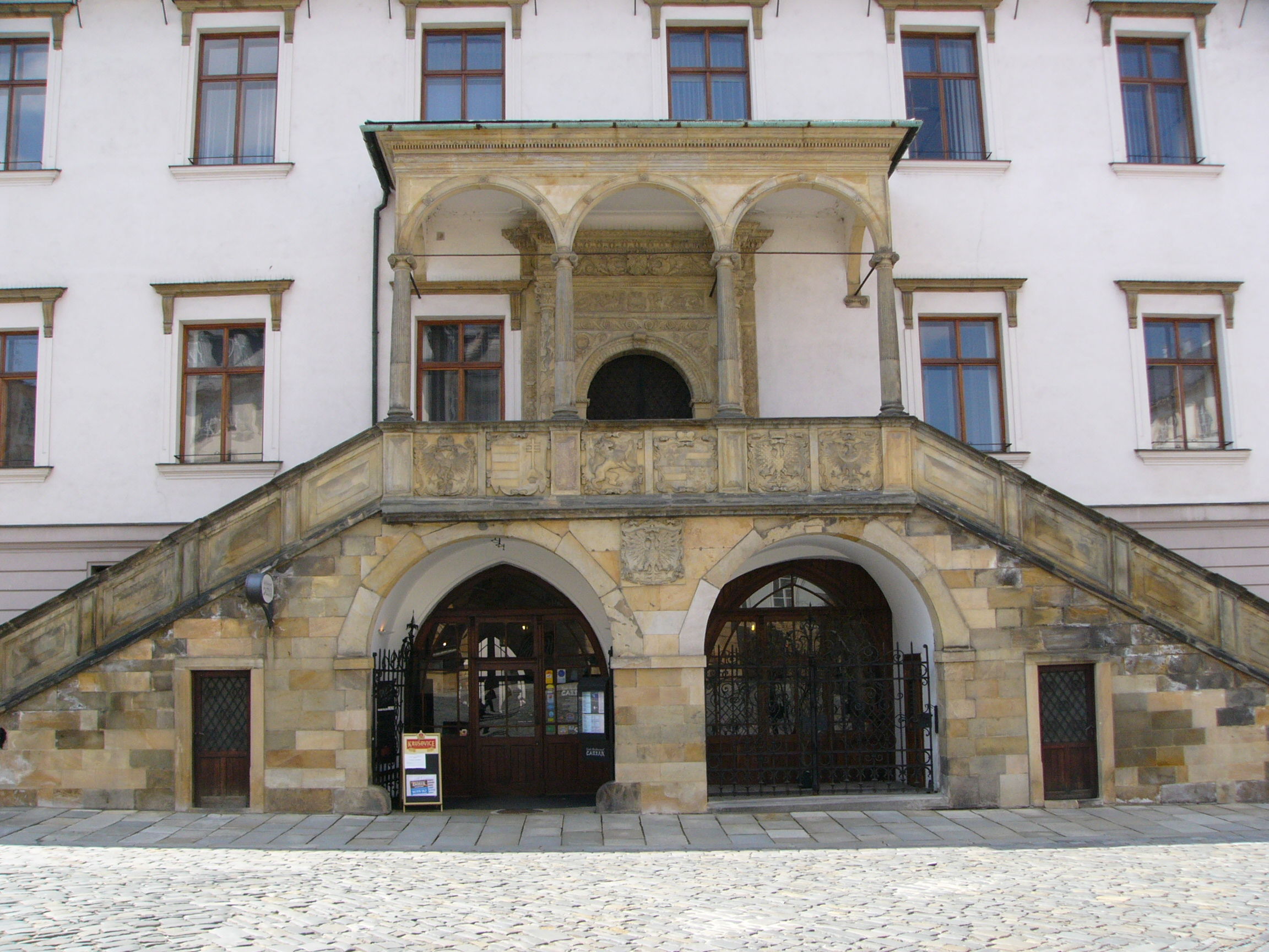 Renaissance loggia of townhall in Olomouc (Czech Republic).